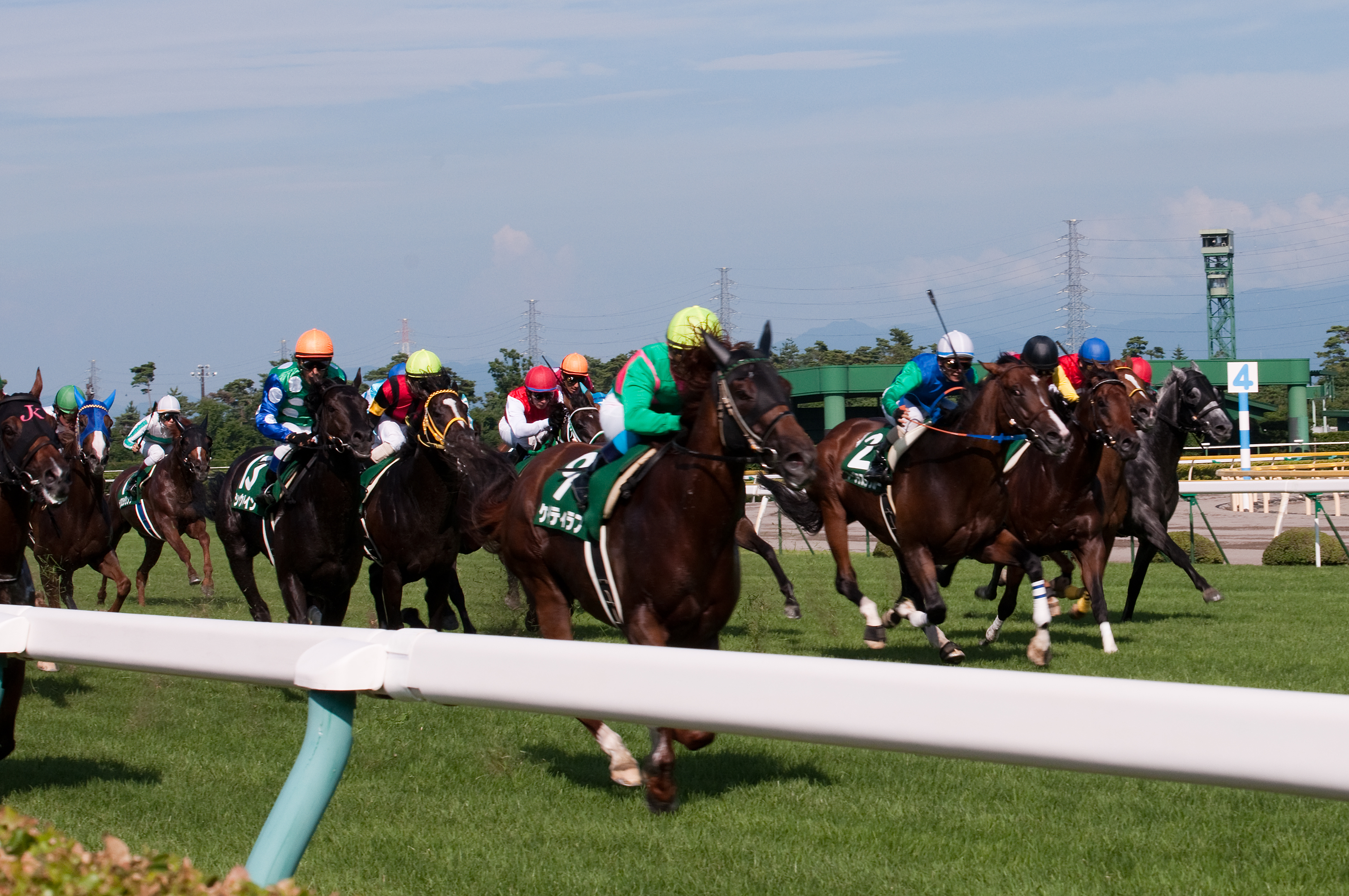 2010 Ibis Summer Dash ran at Niigata Racecourse. K.T Love (center) won the race.